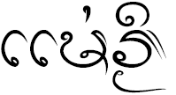 Lanna script – Mae Rim is a district (amphoe) in the central part of Chiang Mai Province in northern Thailand.